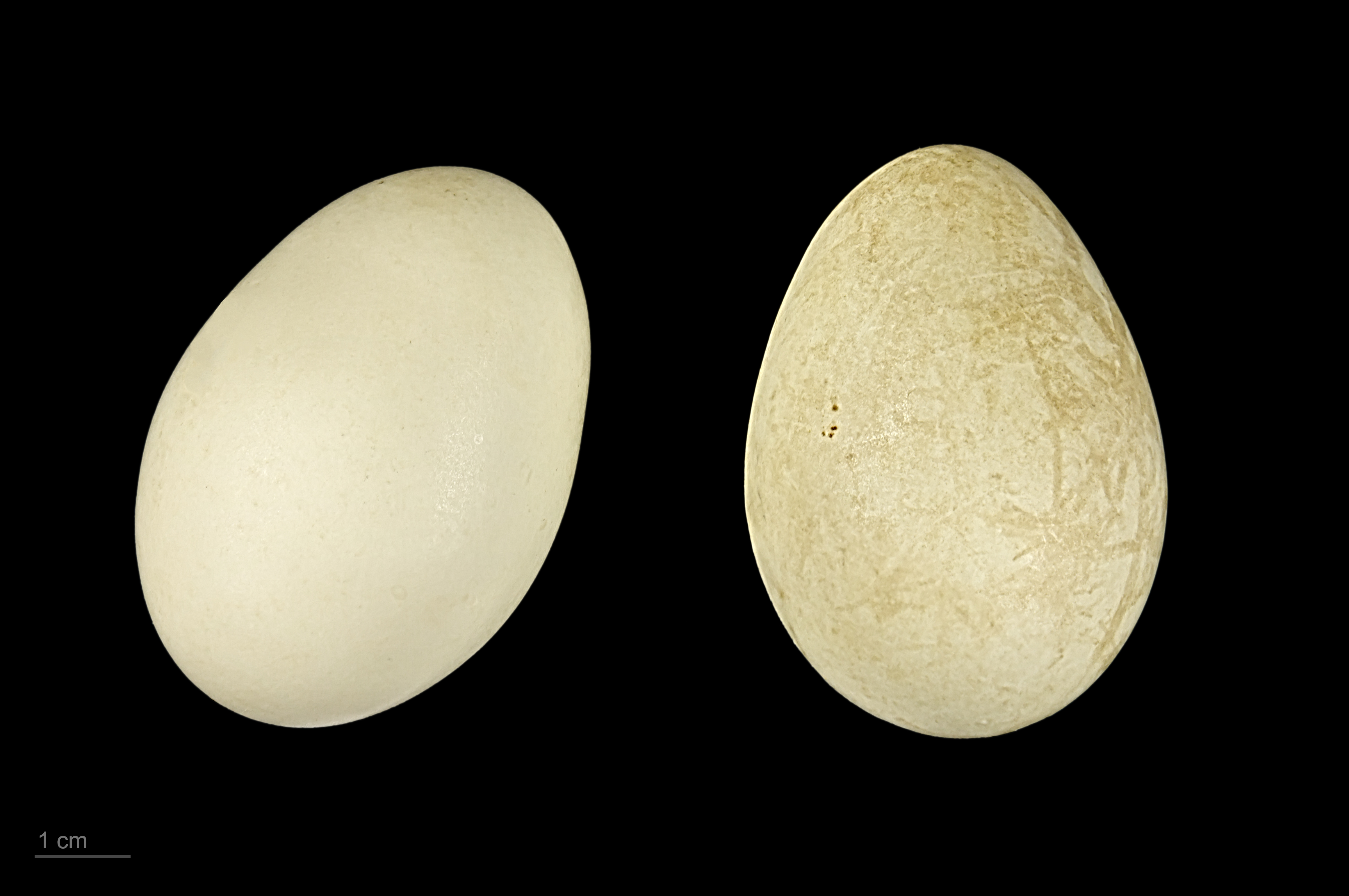 Eggs of long-tailed duck Two specimens of the same spawn ; collection of Jacques Perrin de Brichambaut.